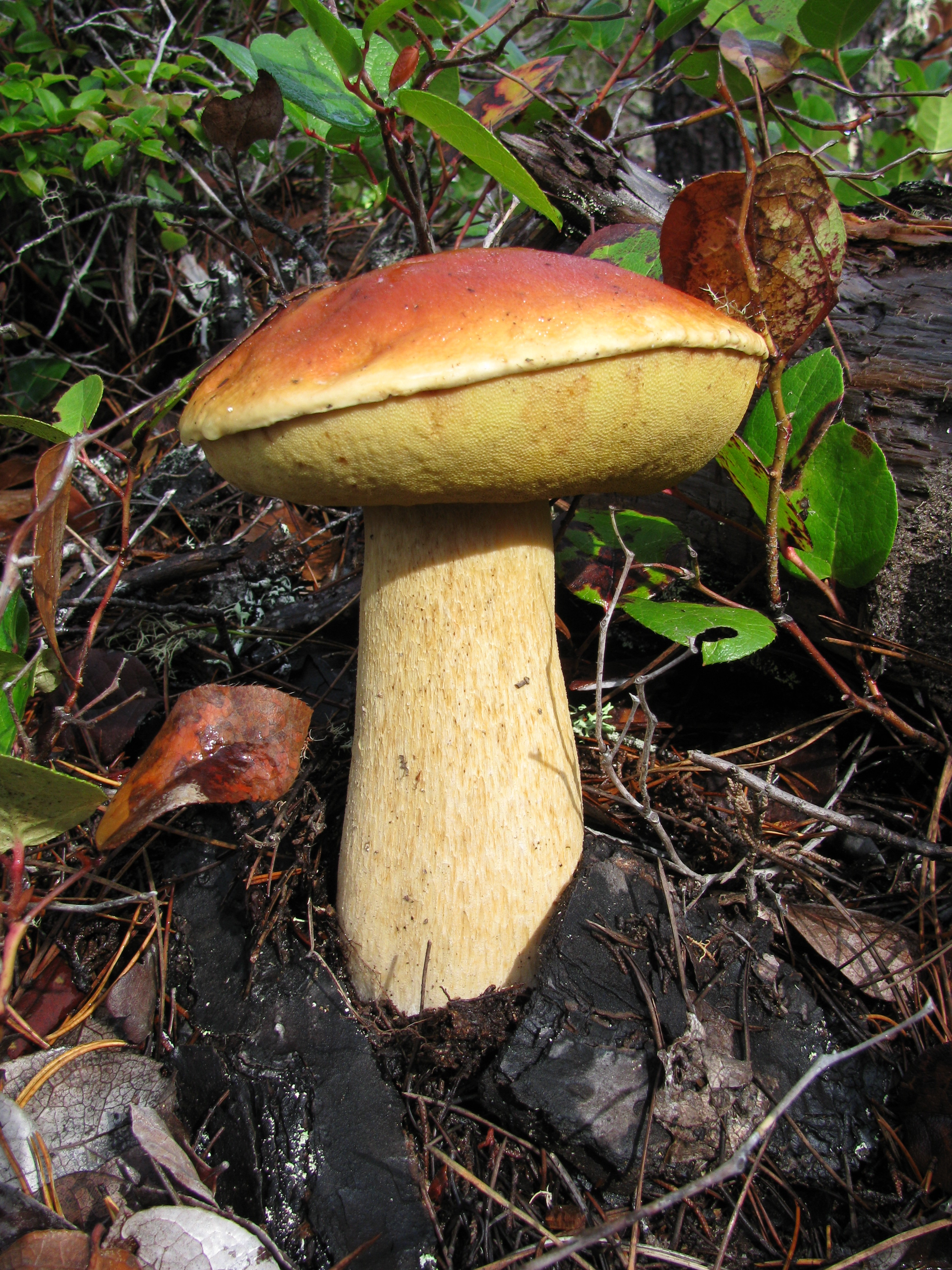 The mushroom Boletus edulis var. grandedulis Arora & Simonini. Mendocino, California, USA